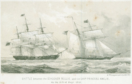 Acquatint of the engagement between the American privateer '"Rossi and the mail packet Princess Amelia